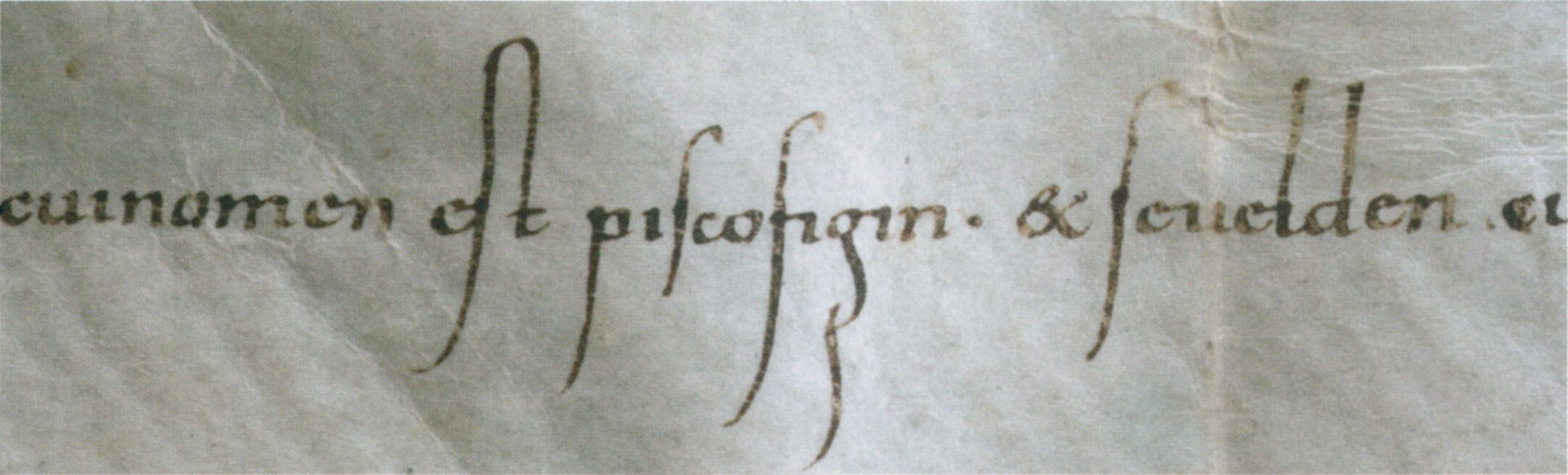 first mentioning of Bischoffingen (piscofigin) in a document of the bishop of Basel Adalbero II. dated 1010